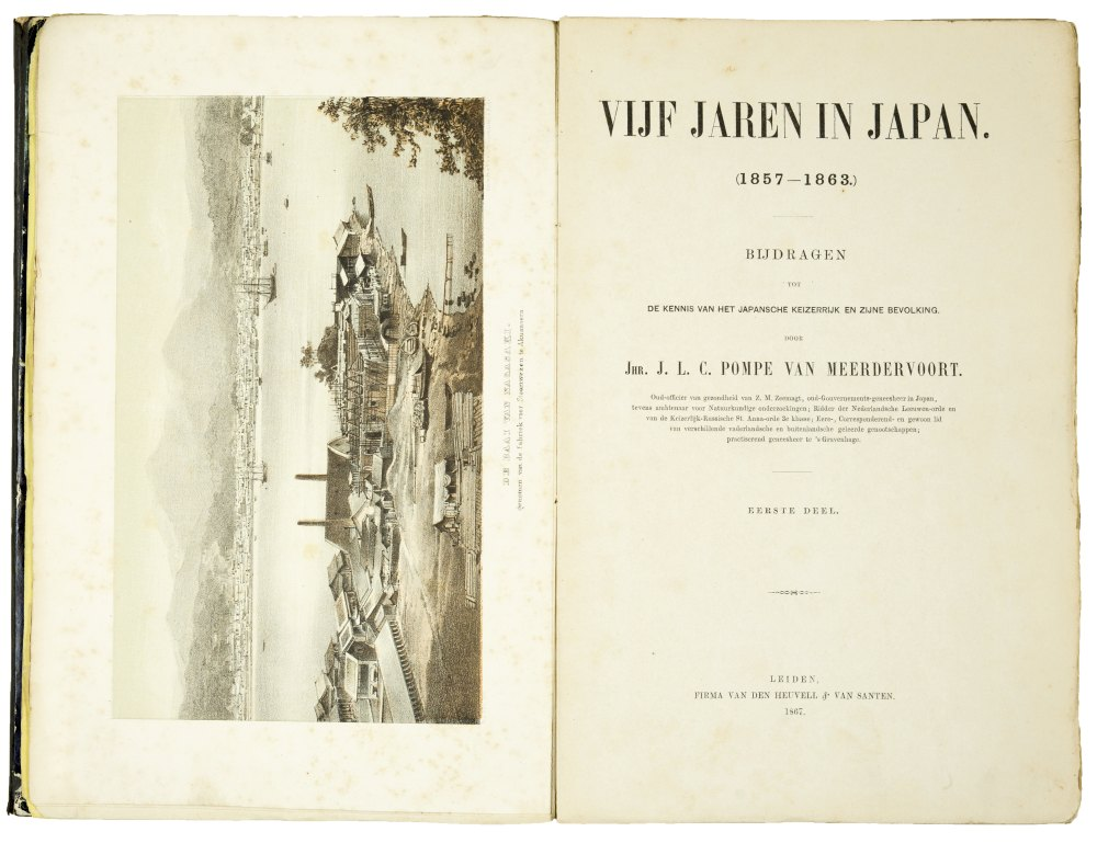 Frontispiece in vol. 1 of Johannes Lijdius Catharinus Pompe van Meerdervoort's Vijf jaren in Japan showing the bay of Nagasaki